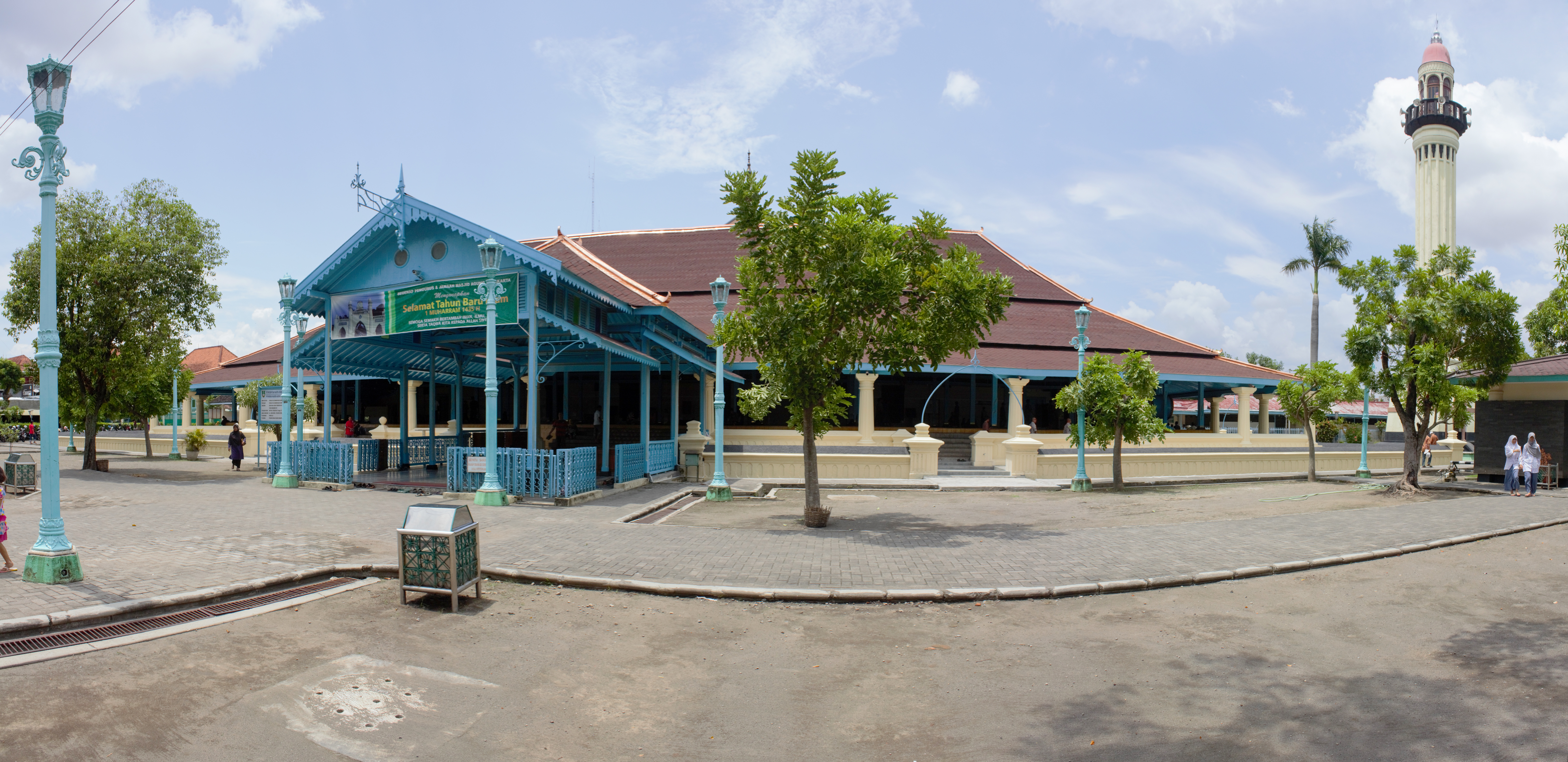 Great Mosque of Solo, built in 1768